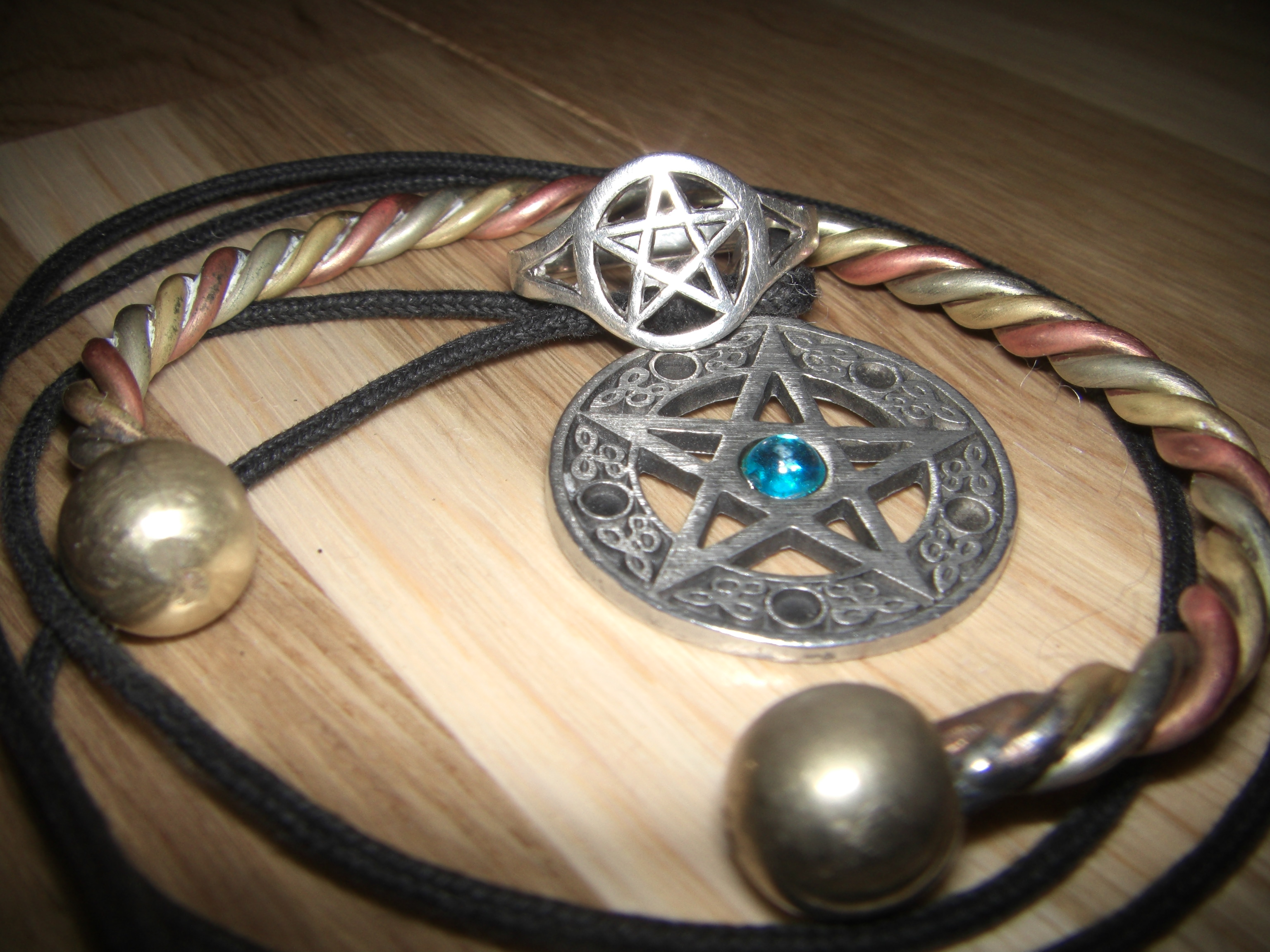 A selection of jewellery used in the rituals of Wicca.